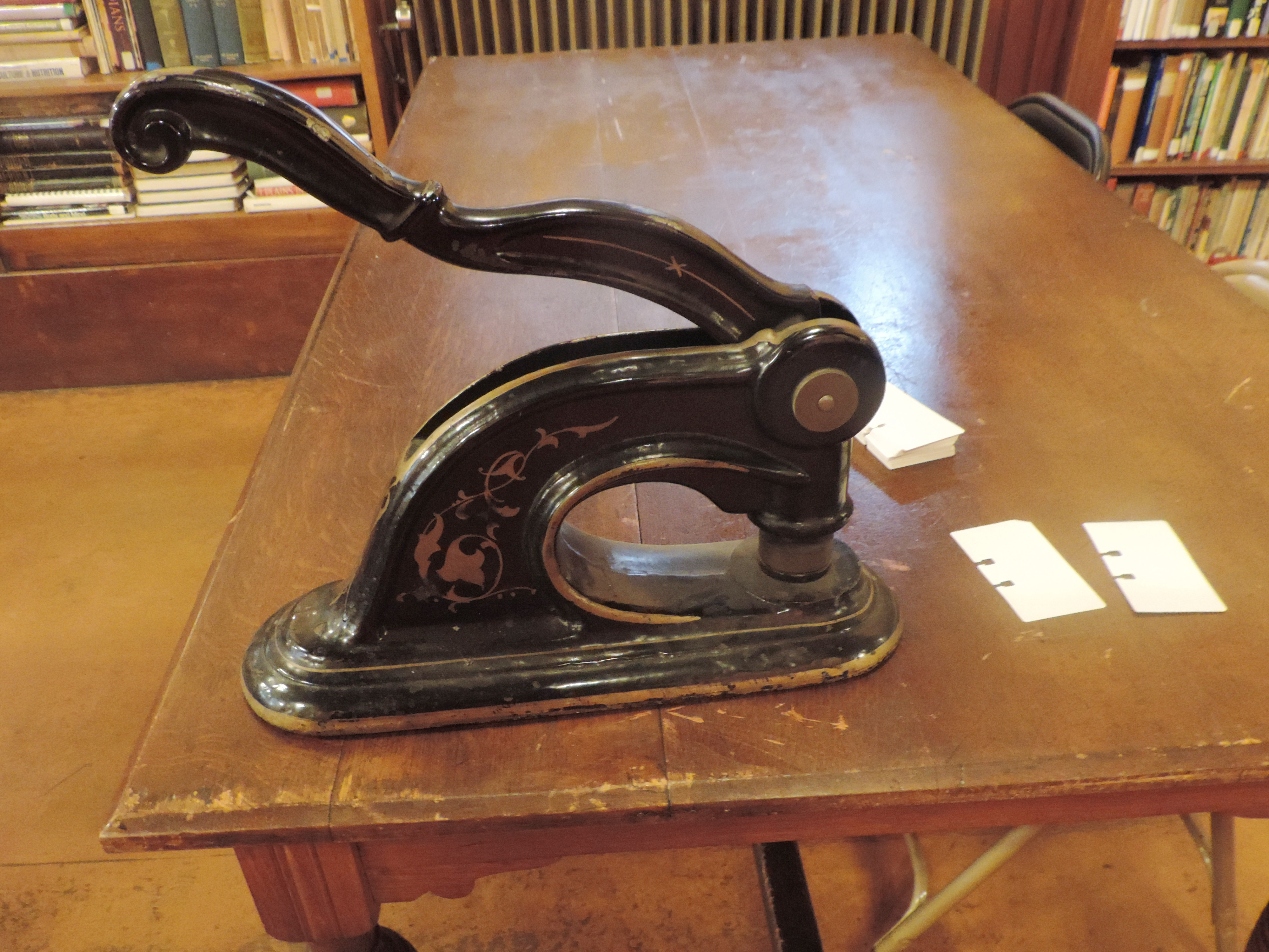 Looking south at embossing machine.